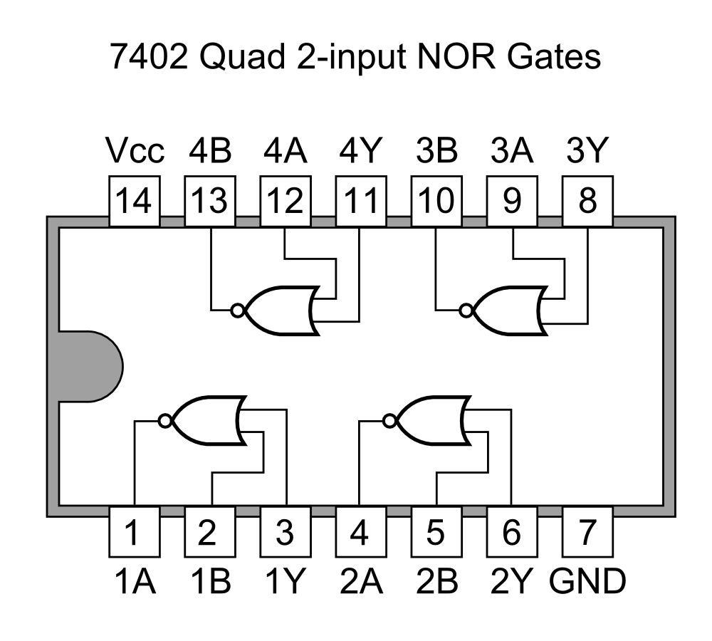 TTL pin asignment of 7402 Quad 2-input NOR Gates